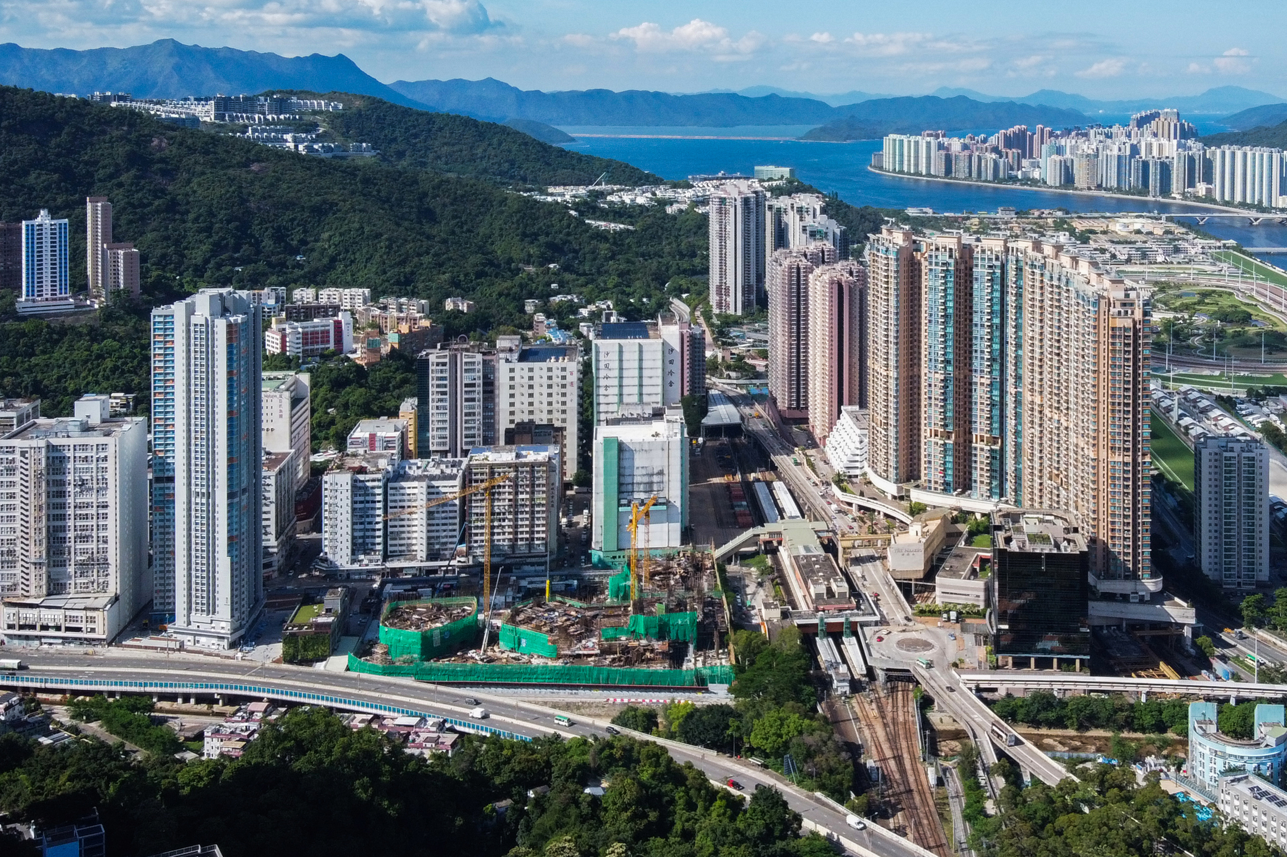 Fo Tan Au Pui Wn Street 1